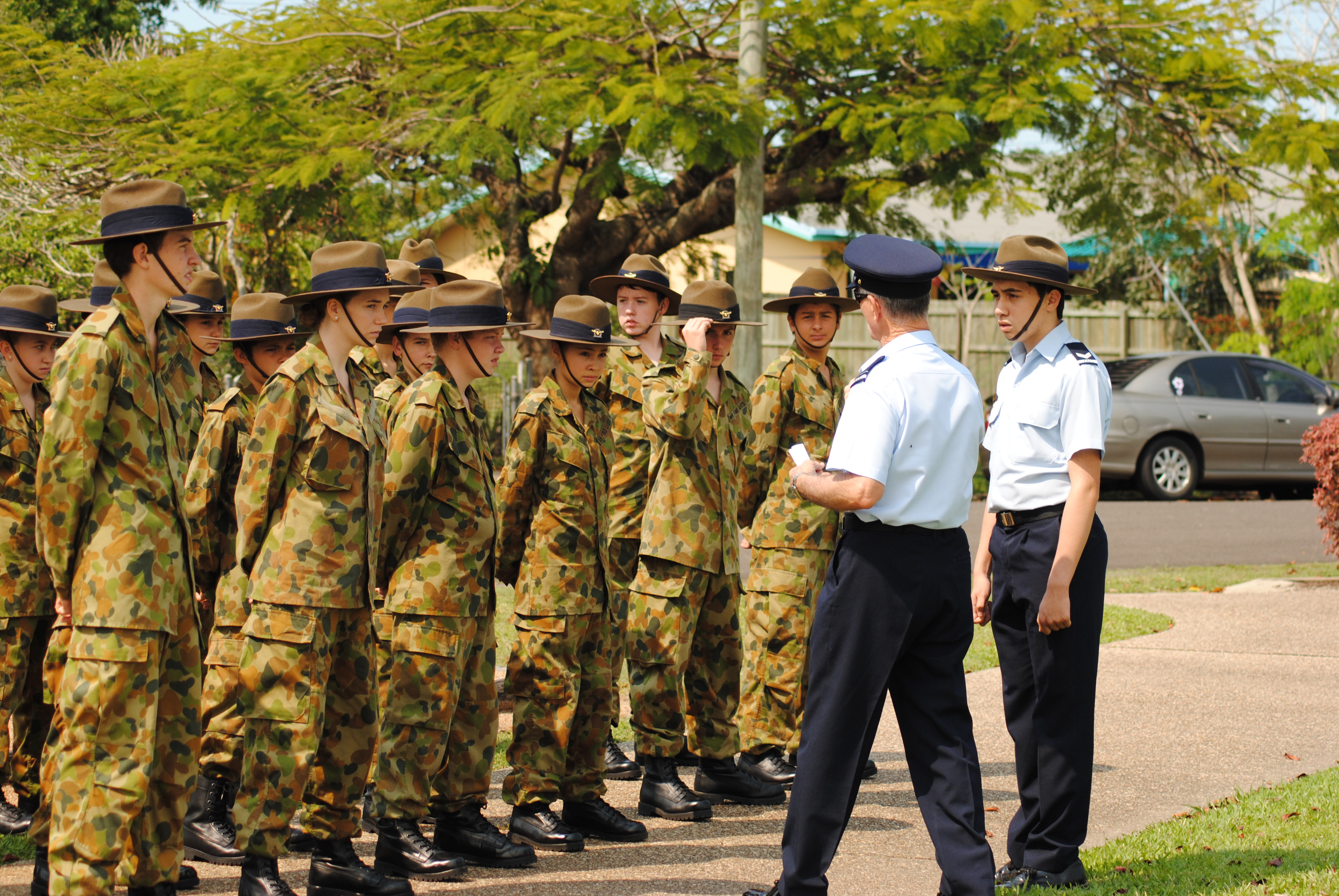 Cadet lining up for a RAAF ceremony. Cadet Corporal Ben Bishop and Training Officer McCloskey brief cadets on what will happen during this ceremony. Photograph taken 10/15/2011